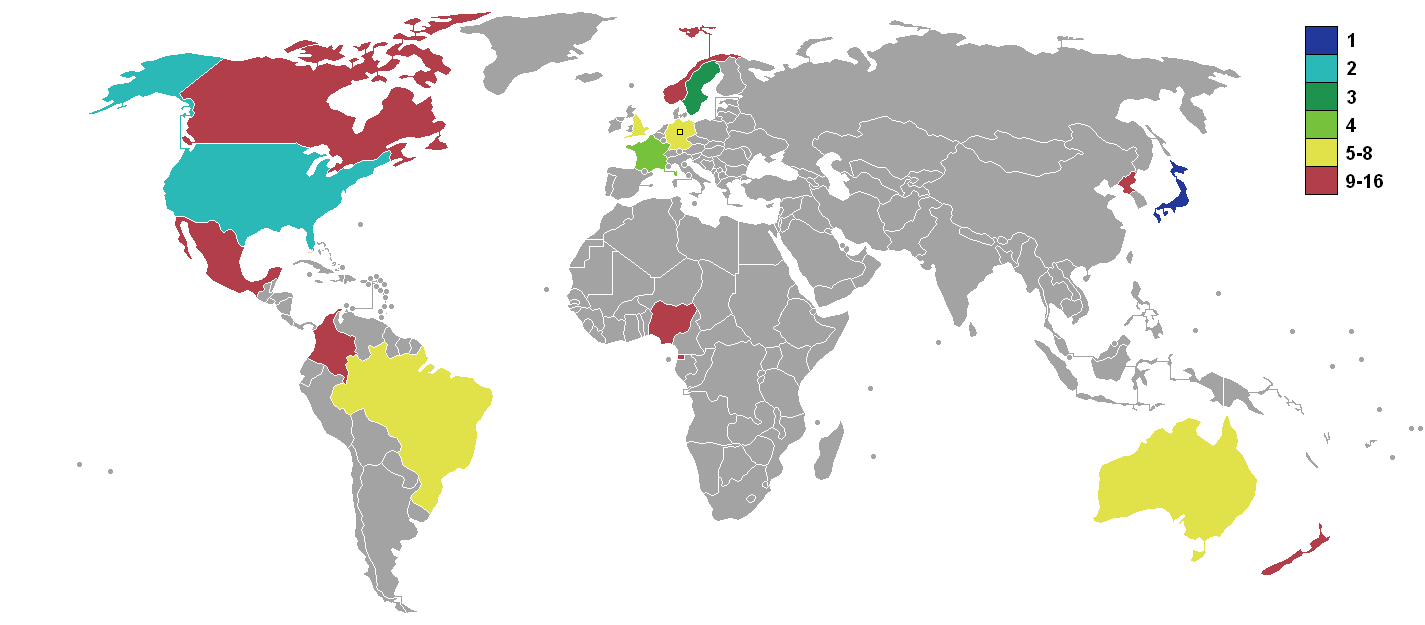 Rankings of the teams of the FIFA Womens World Cup 2011, showing winner = dark blue runner-up = light blue third = dark green fourth = light green quarterfinals = yellow group stage = red yellow square = host nation (Germany)